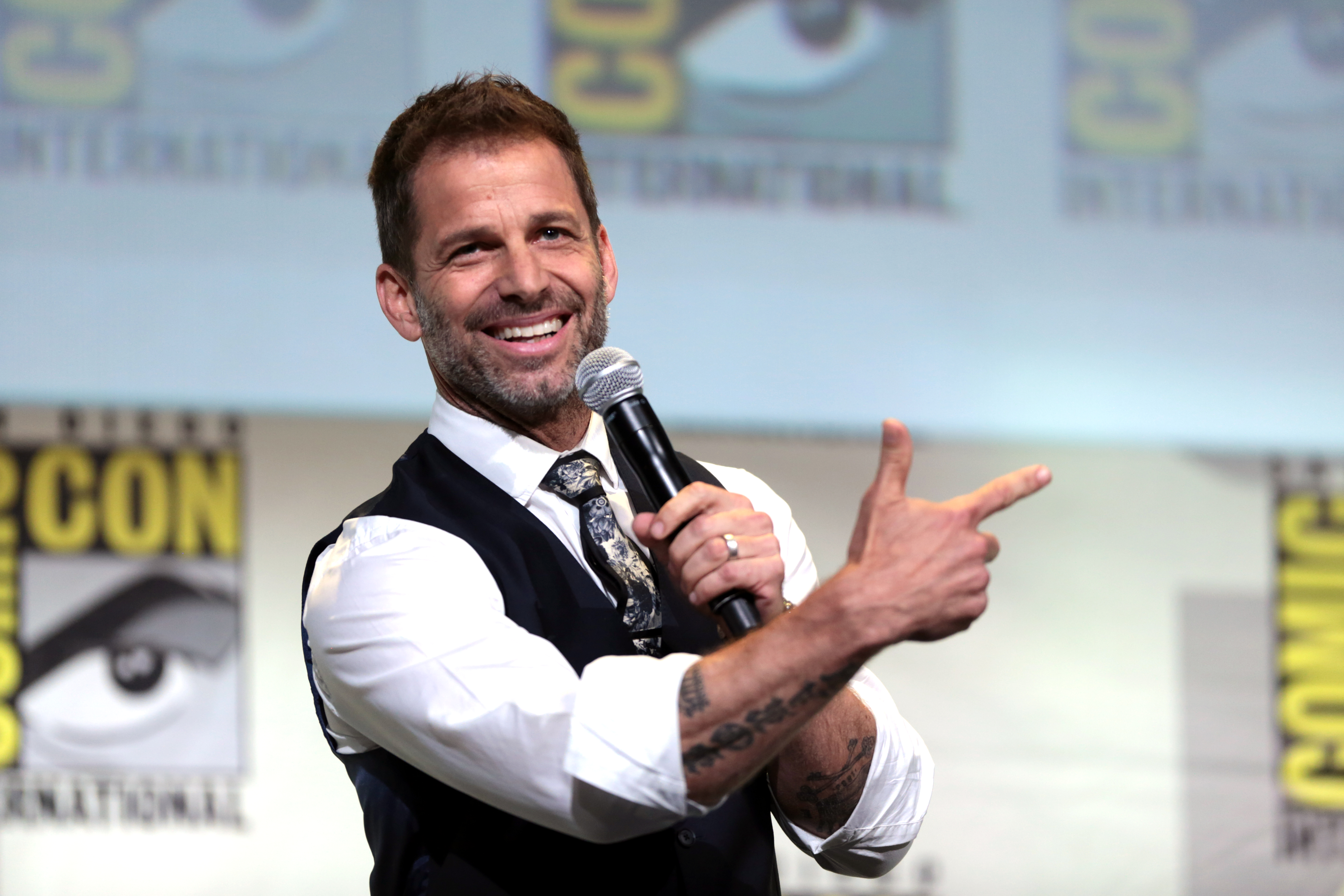 Zack Snyder speaking at the 2016 San Diego Comic Con International, for "Justice League", at the San Diego Convention Center in San Diego, California.